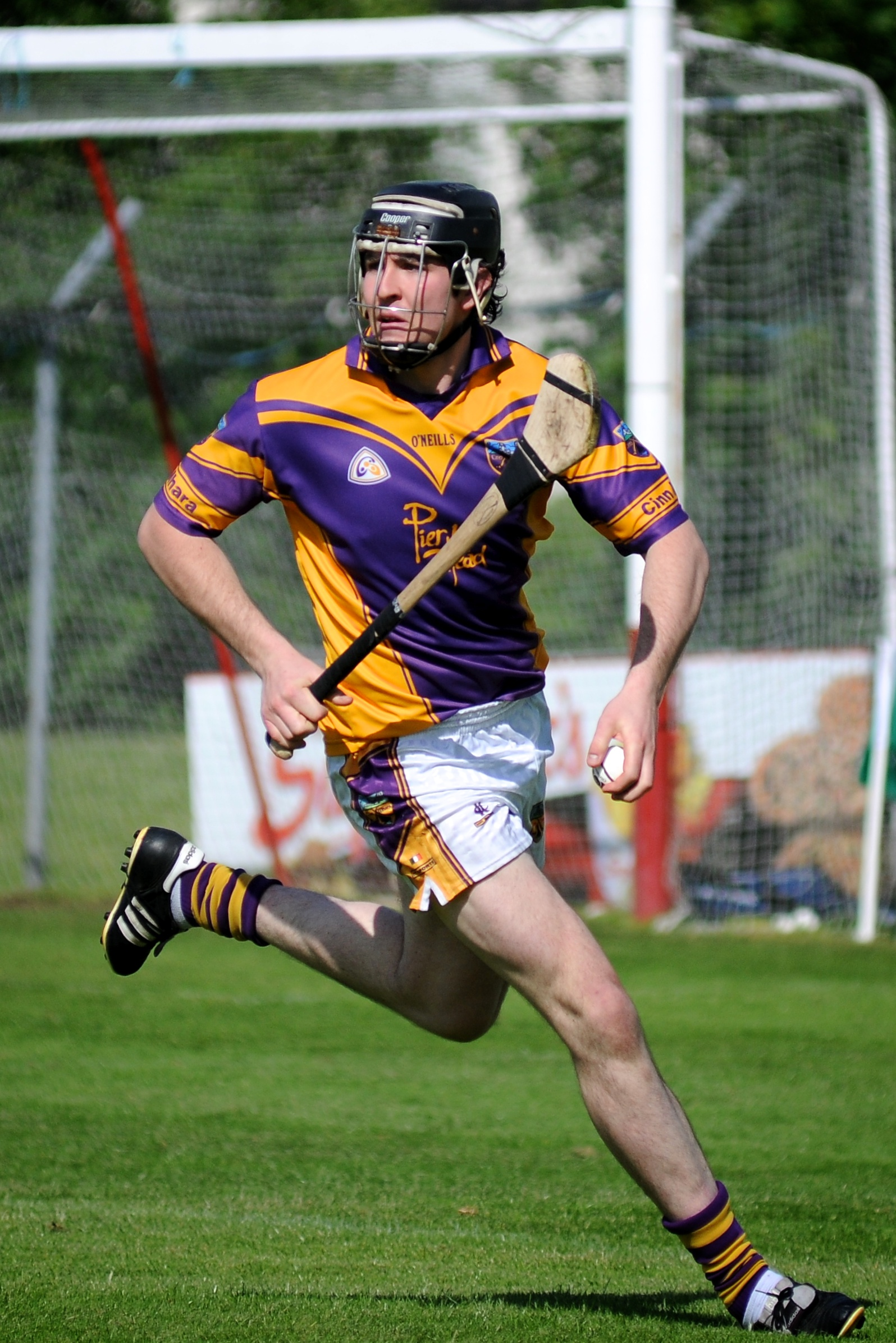 Ger Mahon in action for Kinvara against Craughwell in the 2013 Galway Senior hurling Championship in Athenry